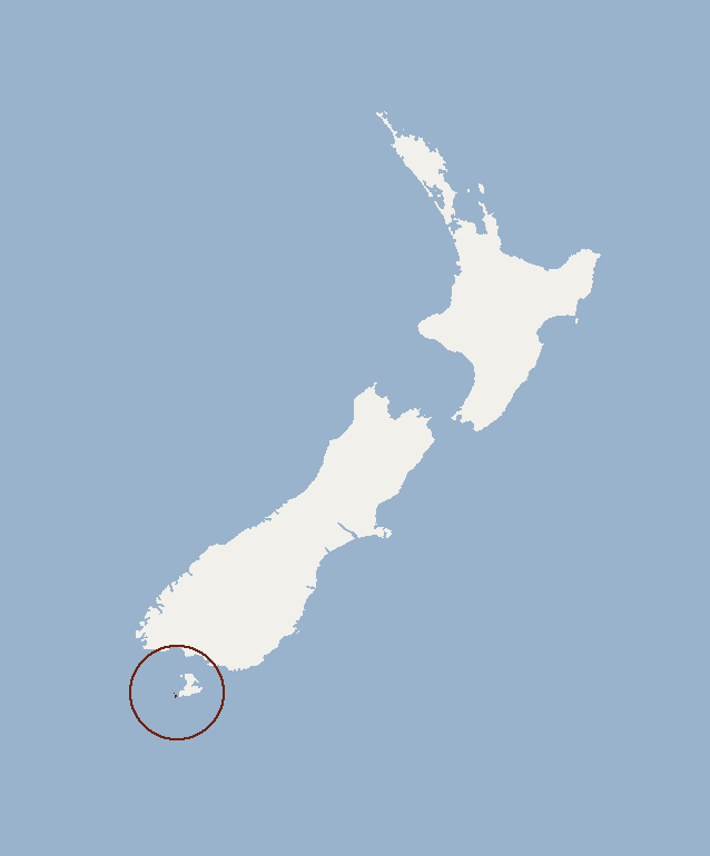 According to